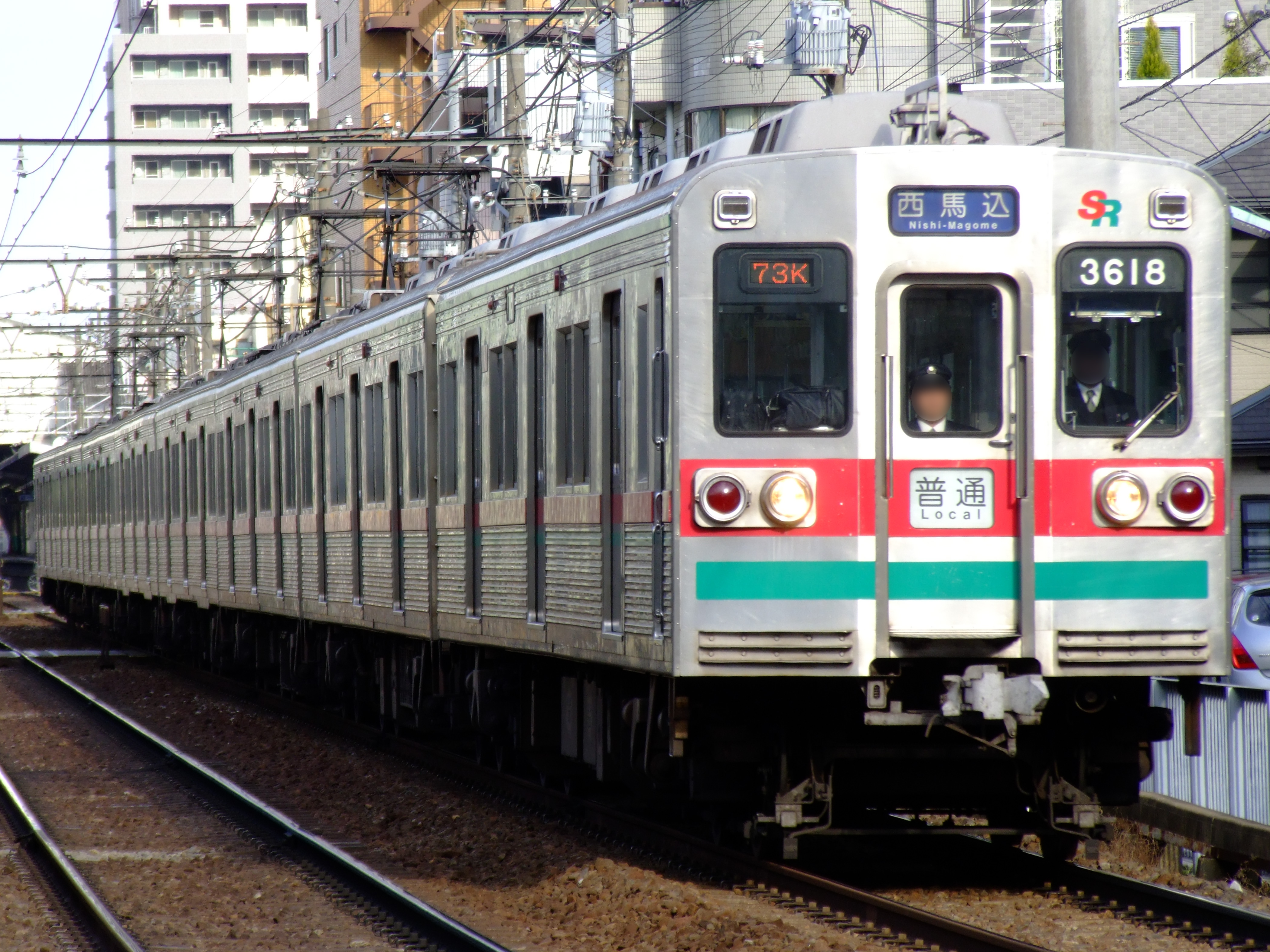 Shibayama Railway 3600 series EMU set 3618